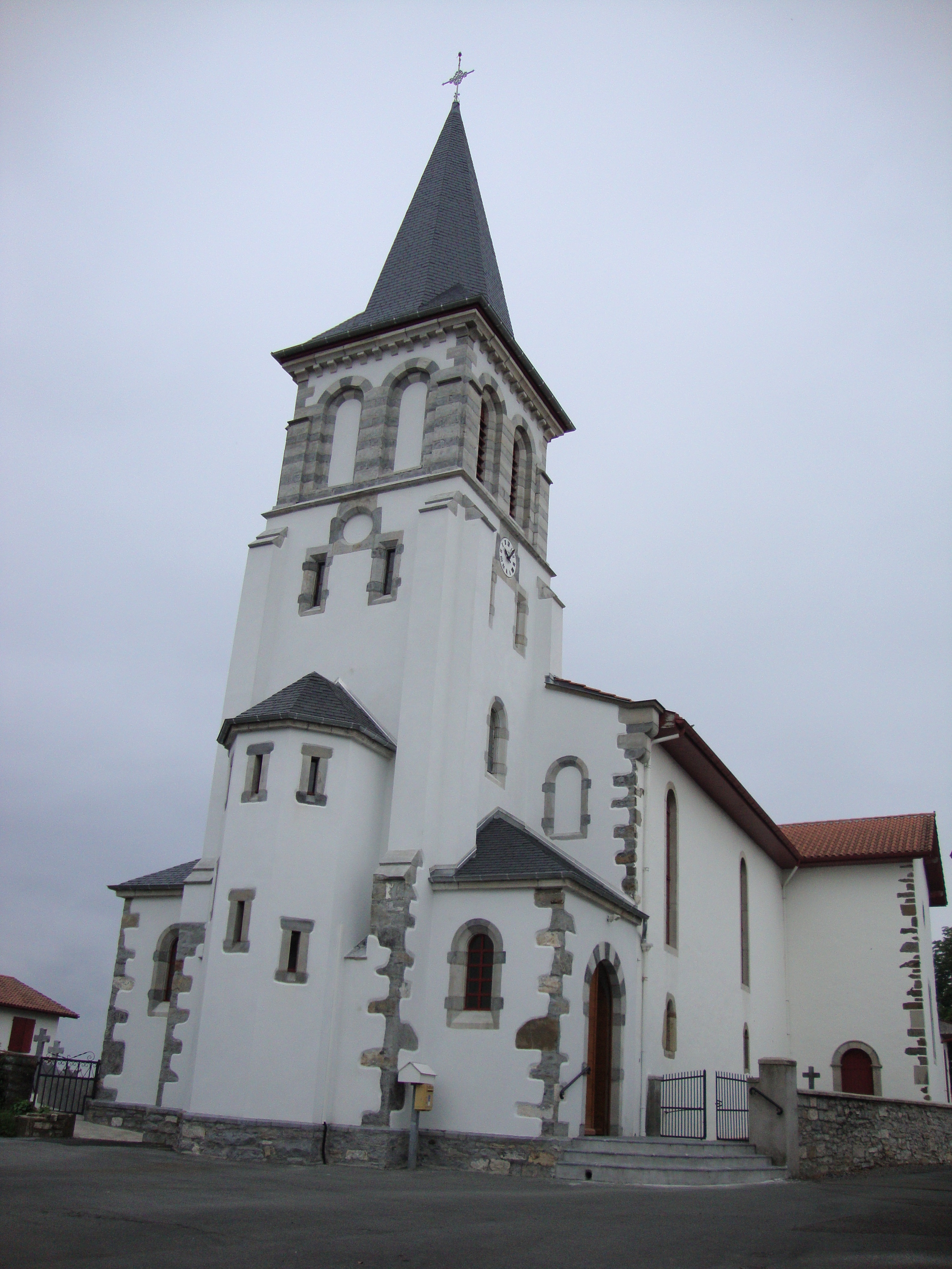 Beyrie-sur-Joyeuse_(Pyr-Atl,_Fr) church facade and tower